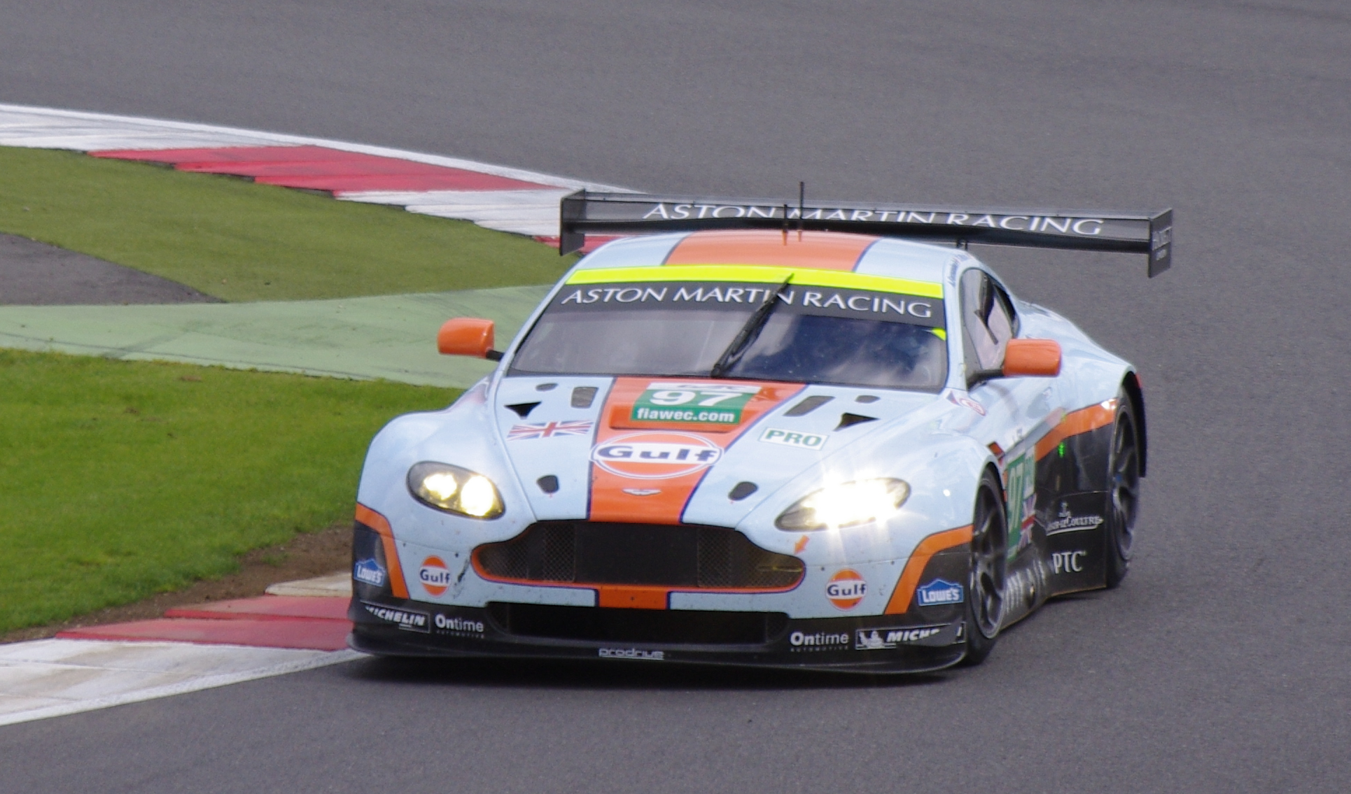 A photograph showing the #97 Aston Martin Racing Vantage GTE.